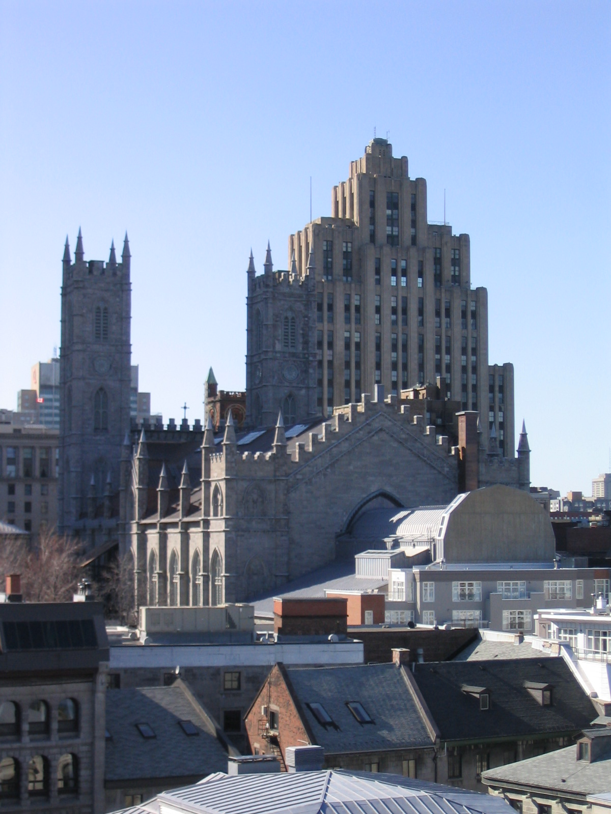 Old Montreal